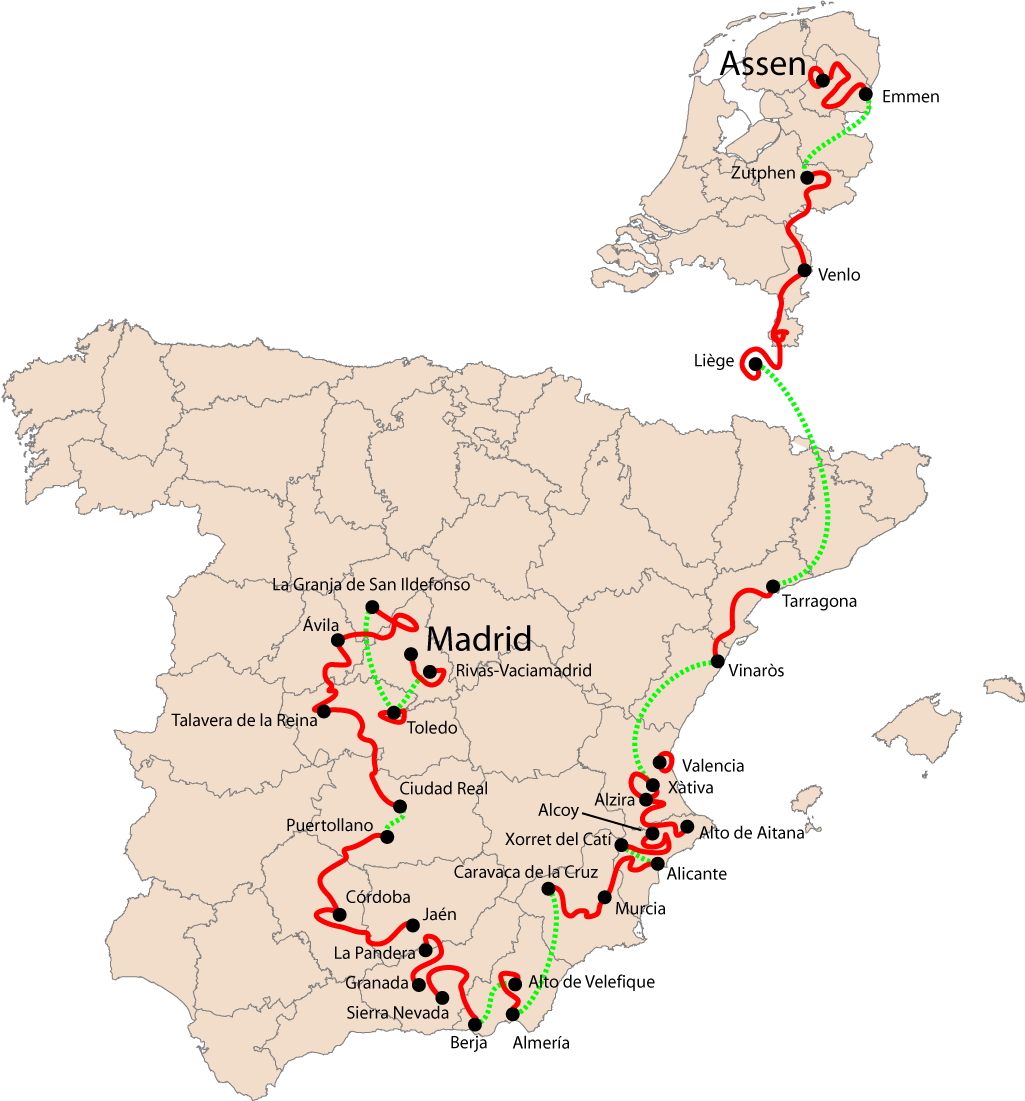 Vuelta a Espana 2009